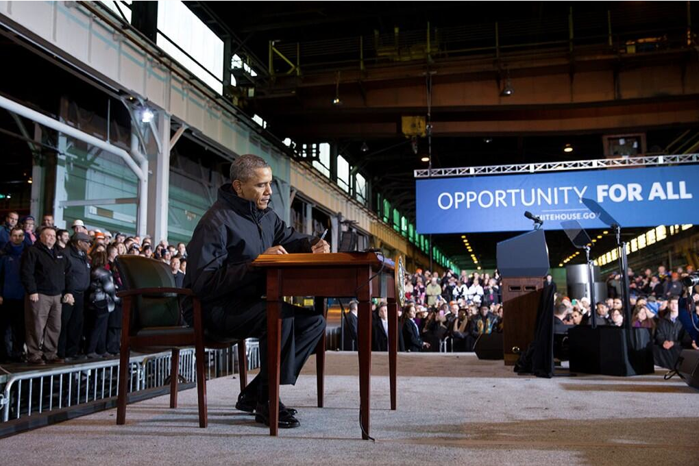 President Barack Obama signs MyRA on January 29, 2014 in the Pittsburgh area U.S. Steel mill, Irvin Works.